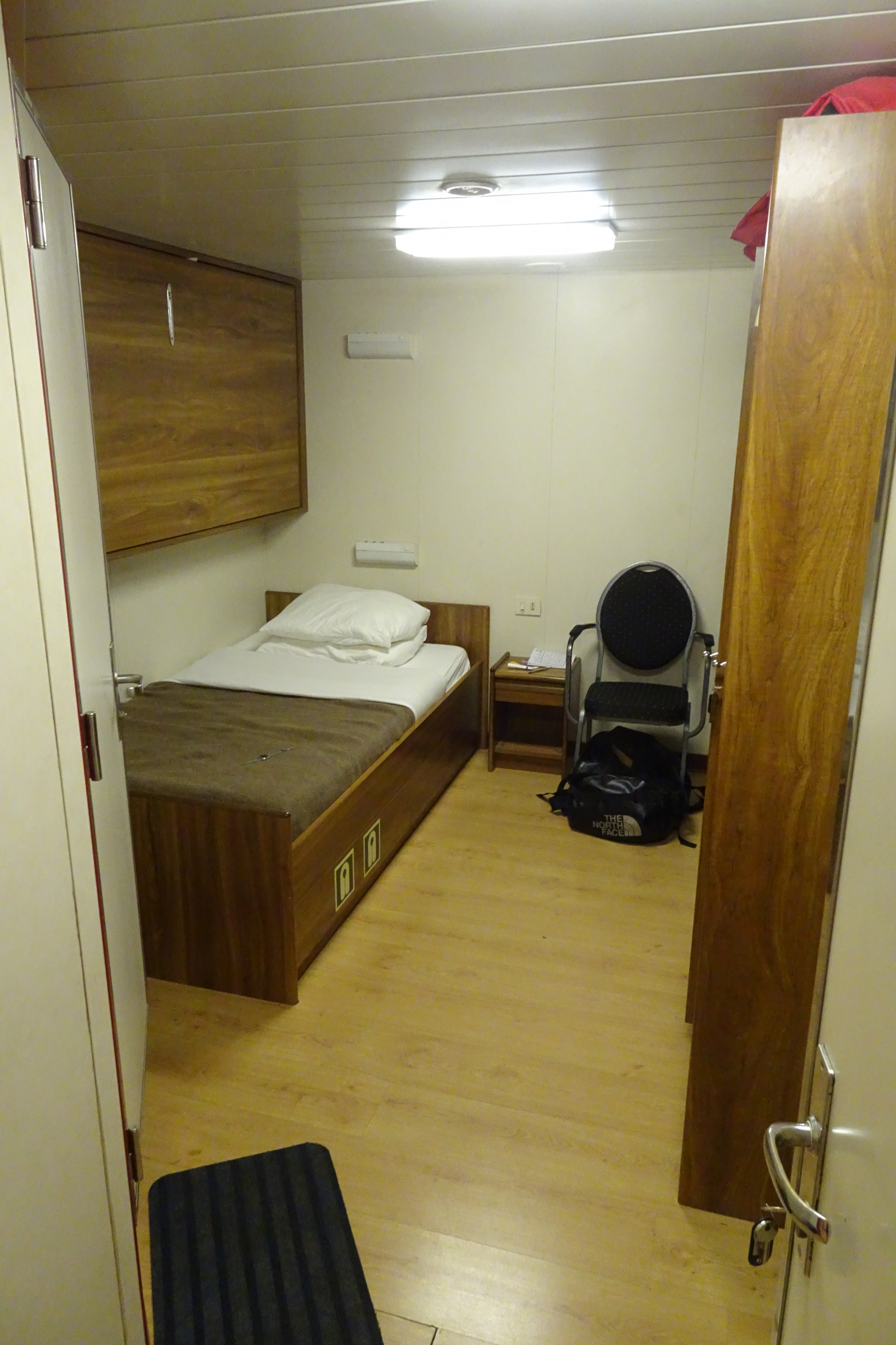 Individual cabin without port window of the Grande Buenos Aires container ship of the company Grimaldi